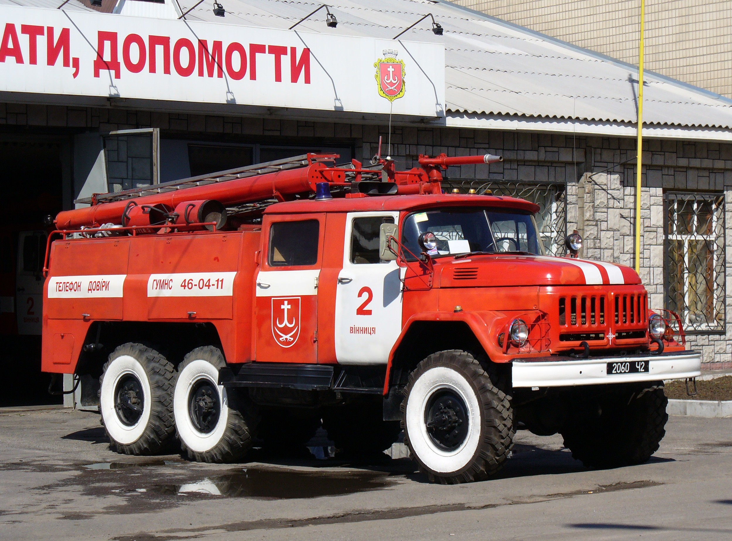 Fire engine (fire bluster tank truck) AC-40 on ZiL-131 chassis. Ukraine, Vinnitsa.